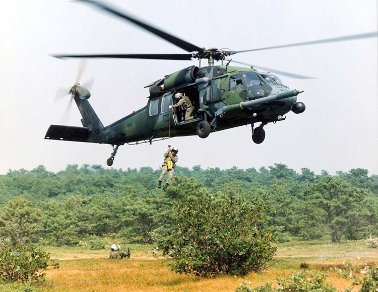 United States Air Force HH-60G Pave Hawk helicopter. FILE PHOTO -- The primary mission of the HH-60G Pave Hawk helicopter is to conduct day or night operations into hostile environments to recover downed aircrew or other isolated personnel during war. Because of its versatility, the HH-60G is also tasked to perform military operations other than war. These tasks include civil search and rescue, emergency aeromedical evacuation, disaster relief, international aid, counterdrug activities and NASA space shuttle support. (U.S. Air Force Photo 021107-O-9999G-007)